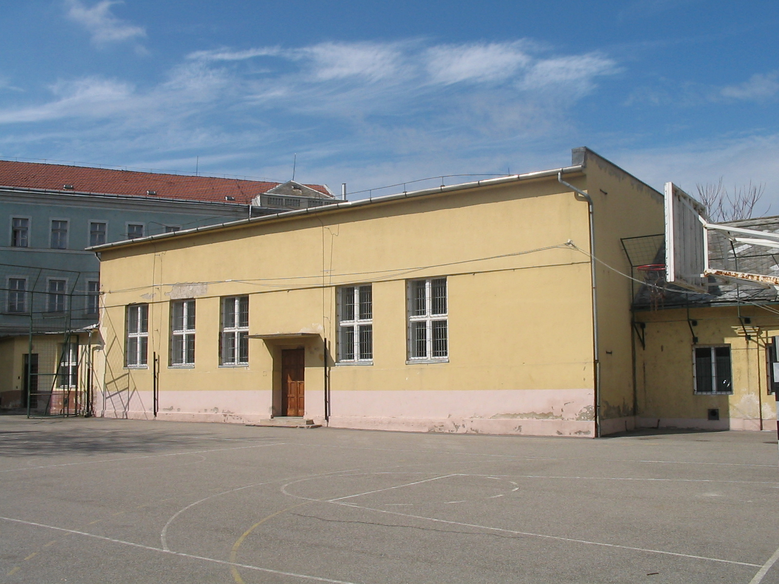 The gym of the Varga Katalin Secondary School (Varga Katalin Gimnázium), Szolnok